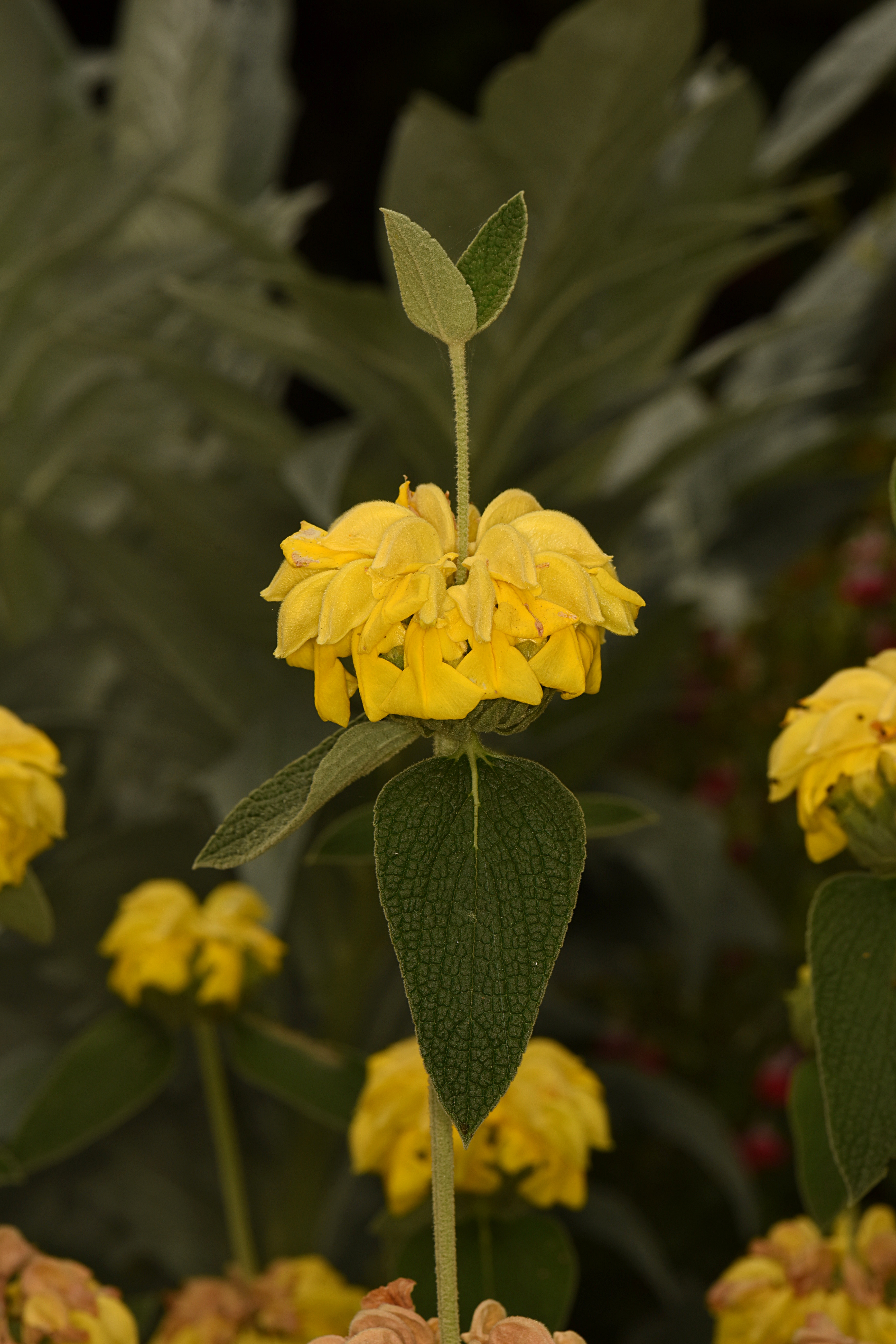 A flower of Phlomis fruticosa - photographed at the Lake Merritt garden in Oakland.